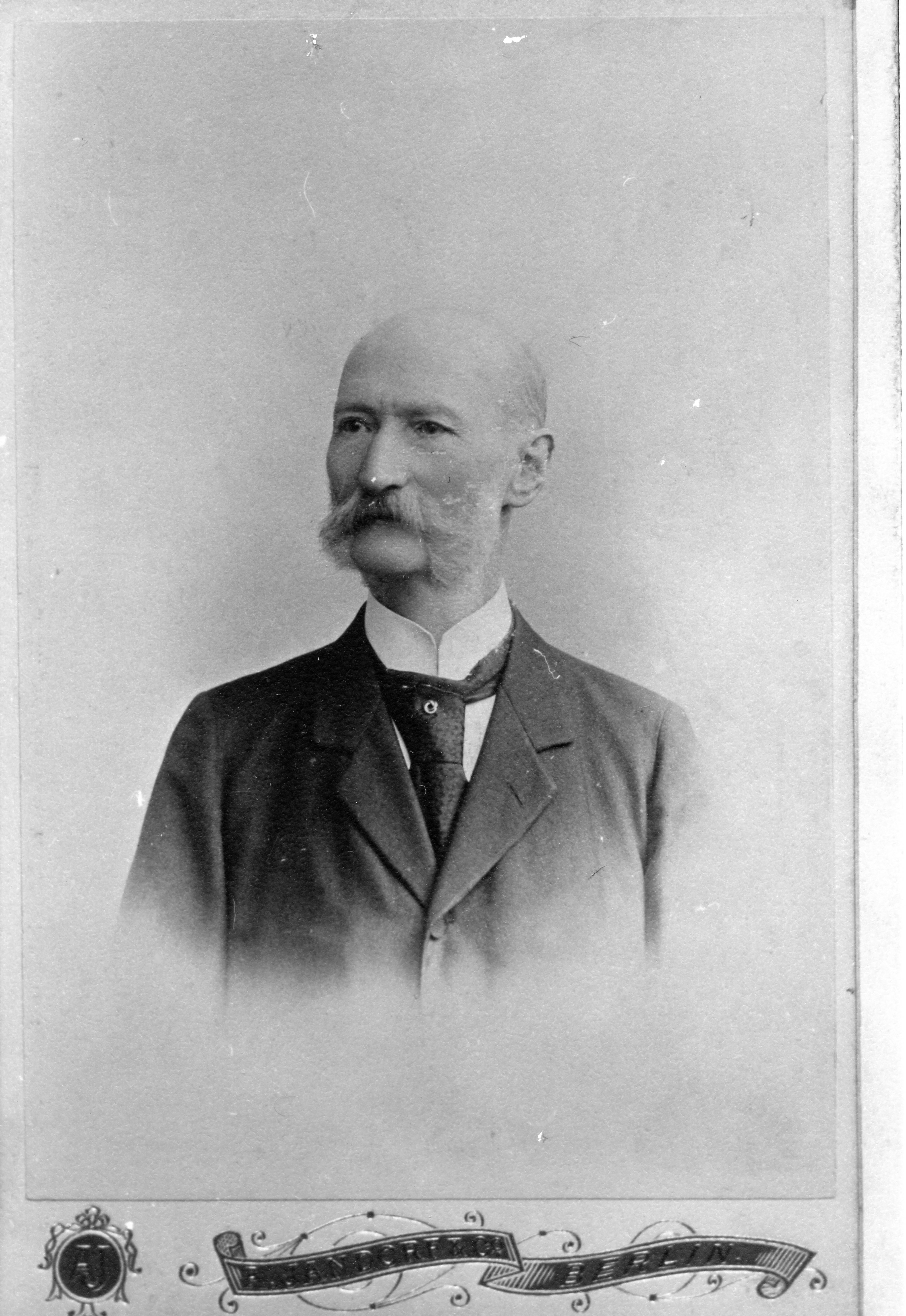 Moritz Landé (1829–1888) was a German architect of Jewish origin. Landé was born in 1829 in Ostrów Wielkopolski, Poland.